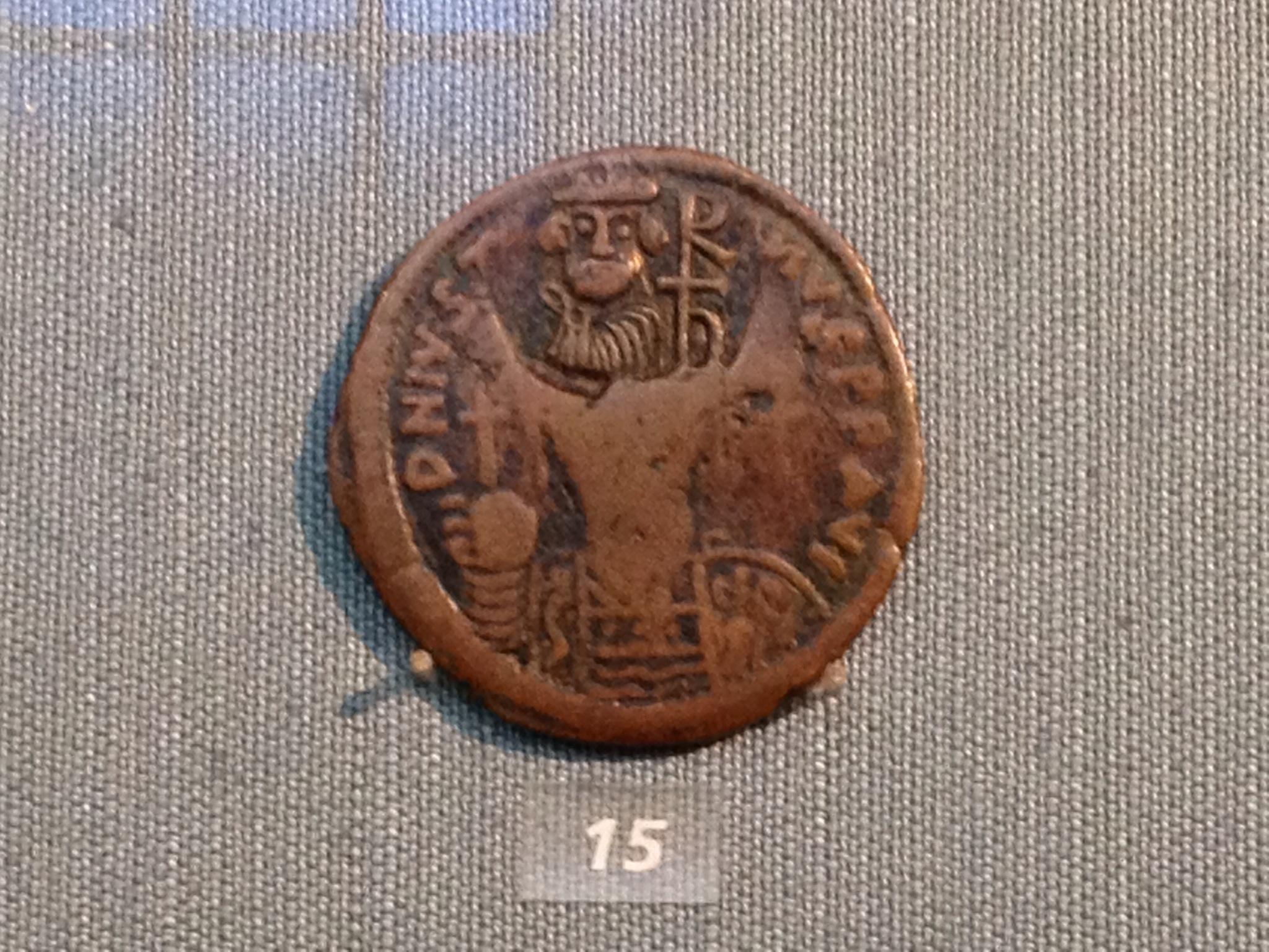 A 40-nummy coin minted in Catania (Sicily)